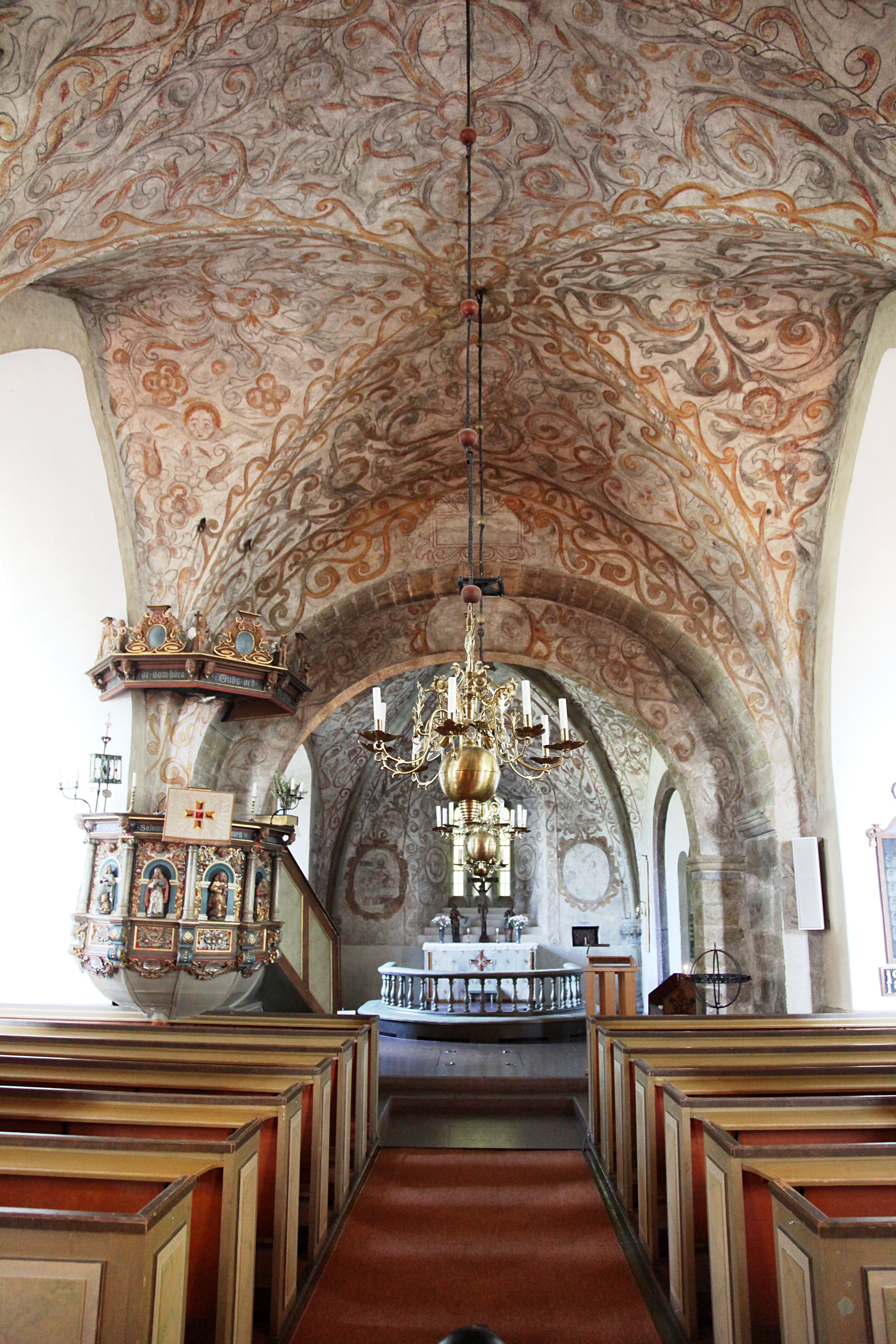 Interior in Forshems kyrka. A church near Lidköping